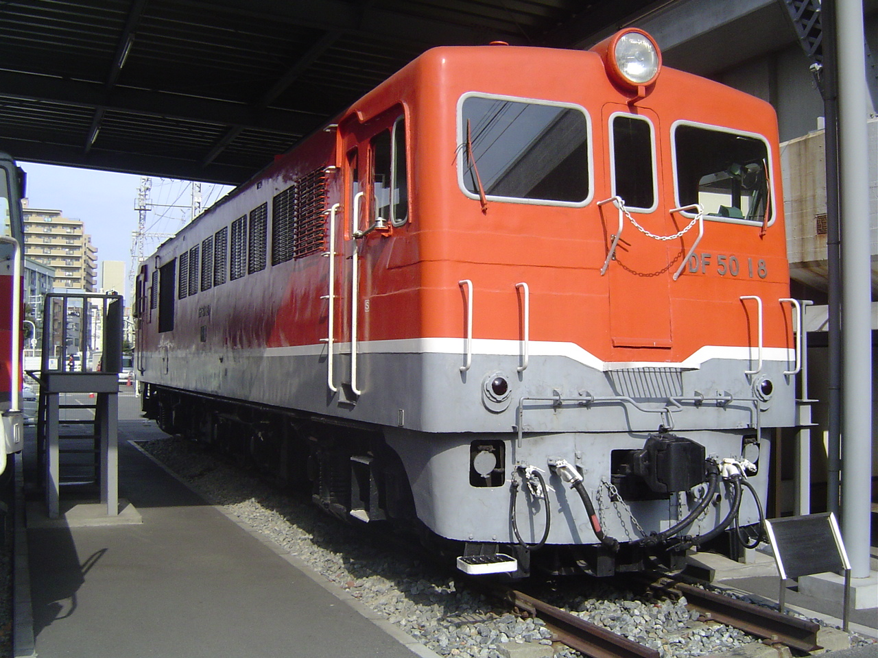 JNR Class DF50 diesel locomotive DF50 18 preserved at the Modern Transportation Museum in Osaka, Japan